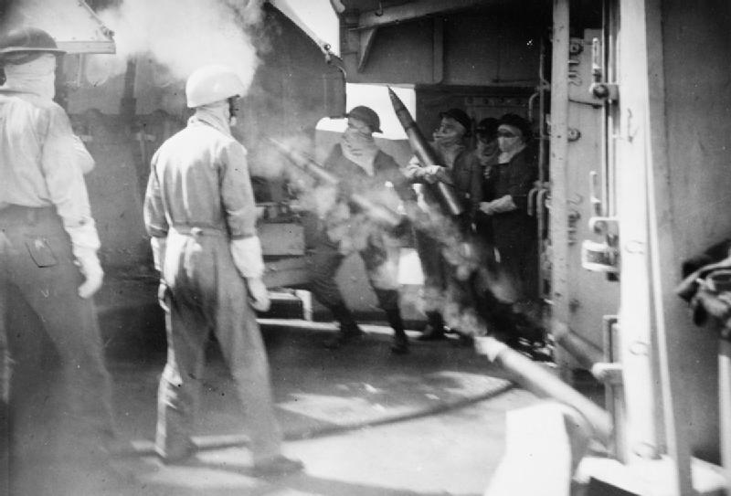 IWM caption : Twin 4 inch guns of the cruiser HMS Newcastle (C76) in action against North Korean gun batteries.